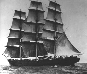 The clipper "CUTTY SARK" in full sails.